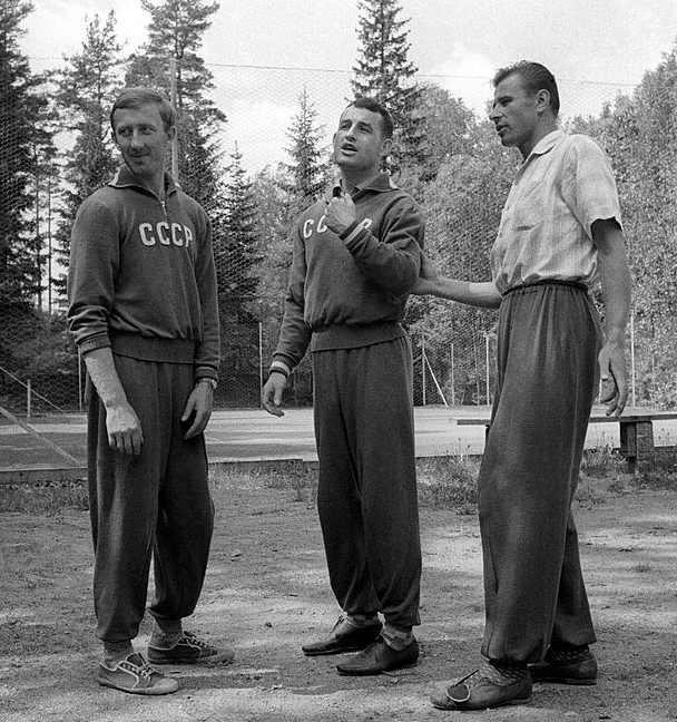 Left-right:Igor Netto, Sergei Salnikov, Lev Yashin at the 1958 World Cup